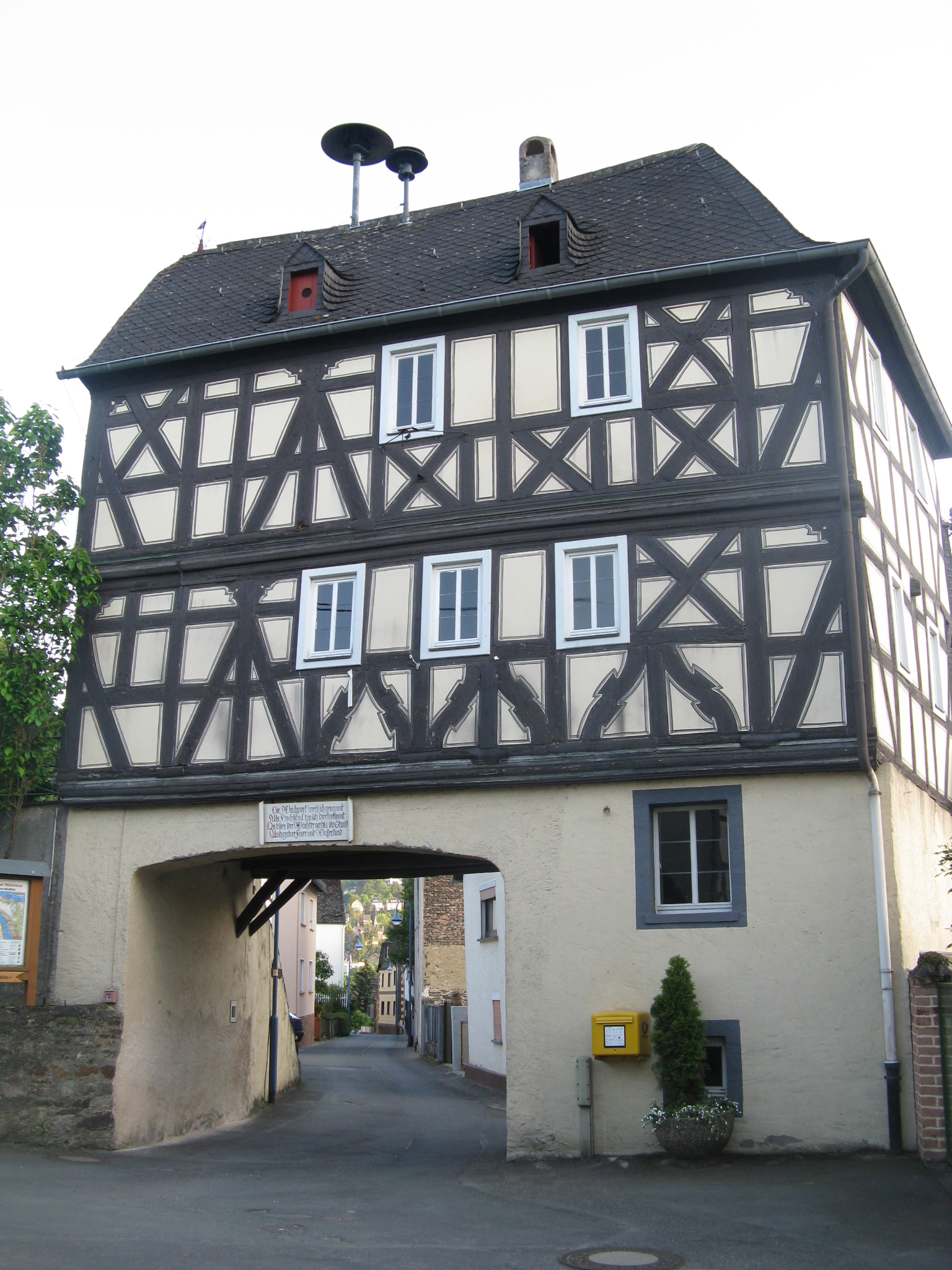 City Gate Filsen, Rhine Valley, Germany